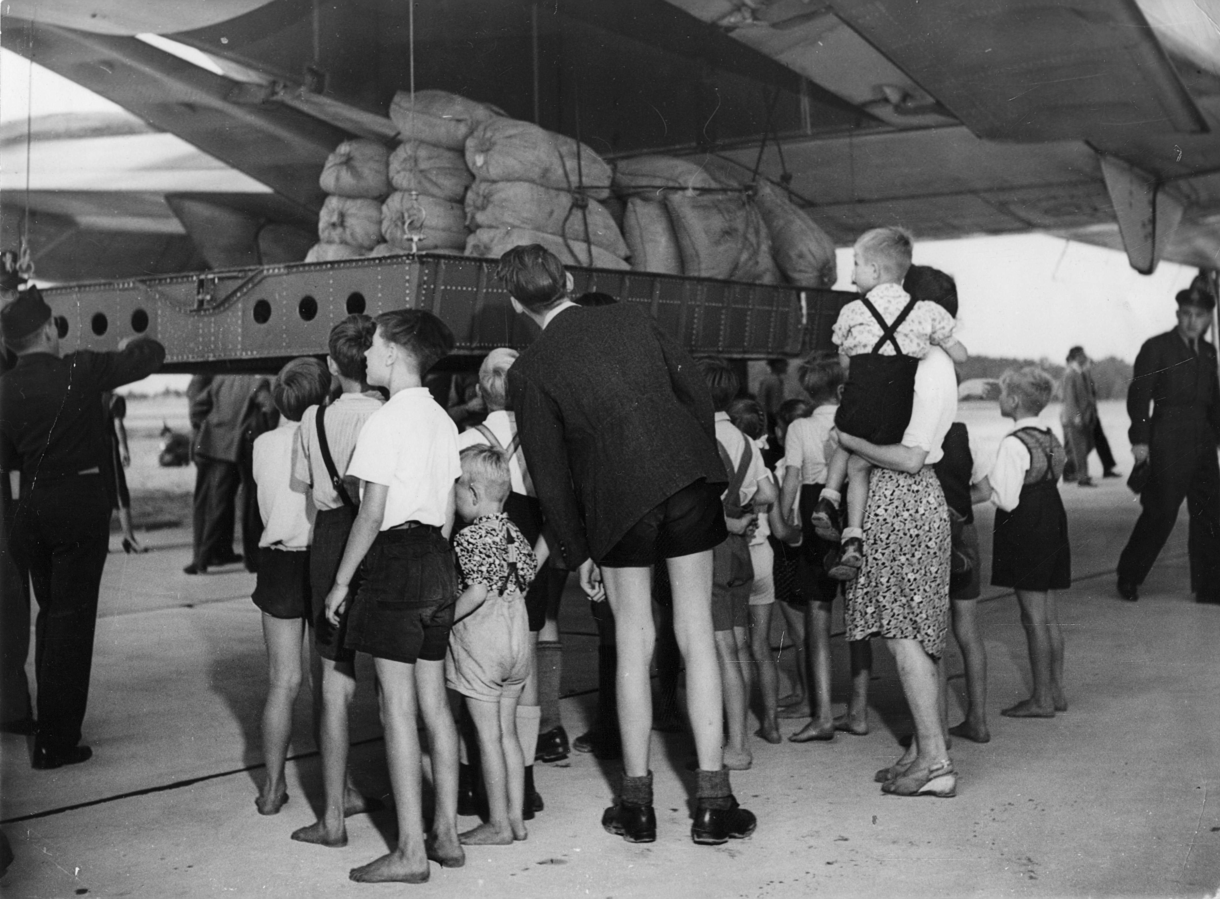 A U. S. Air Force C-74 Globemaster plane touched down at Gatow airfield located in southwestern Berlin, Germany on Tuesday with more than 20 tons of flour from the United States. “Operation Vittles” otherwise known as the Berlin Airlift (June 24, 1948-May 12, 1949) was a combined effort of the western allies against the Soviet Union’s blockade of all land routes into Berlin. The German children look on as the flour bags are lowered on August 19, 1948. Photo courtesy of National Archives and Records Administration.